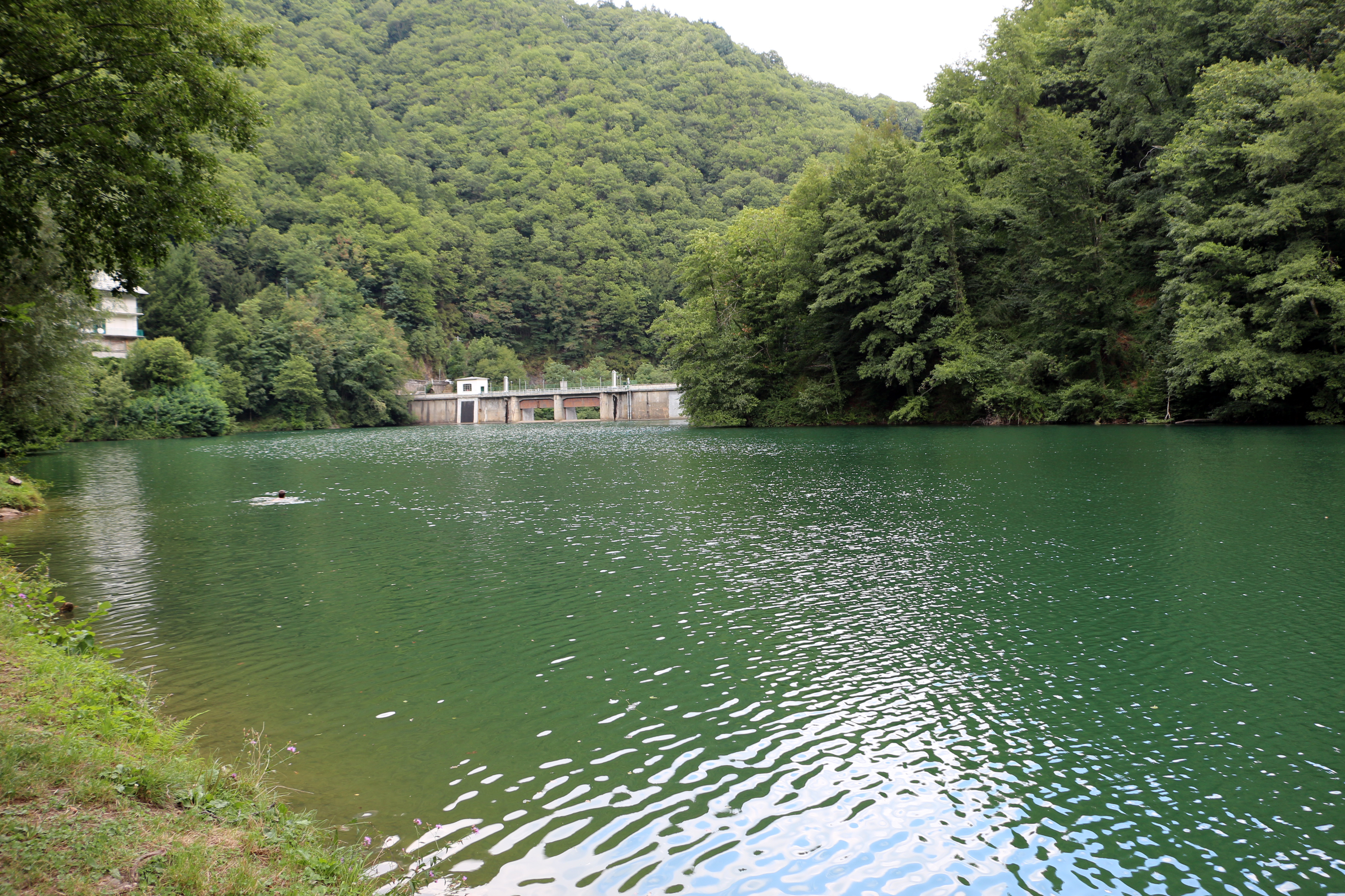 Isola Santa